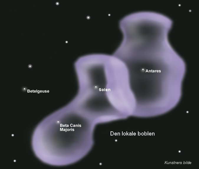 The Local Bubble. Derived from Image:Local bubble.jpg.